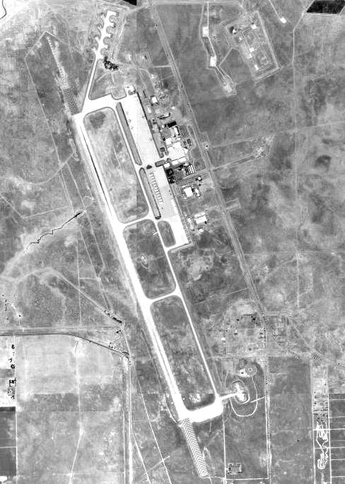 USGS digital orthophoto of Beale Air Force Base in Marysville, California, United States. Taken on 28 July 1999